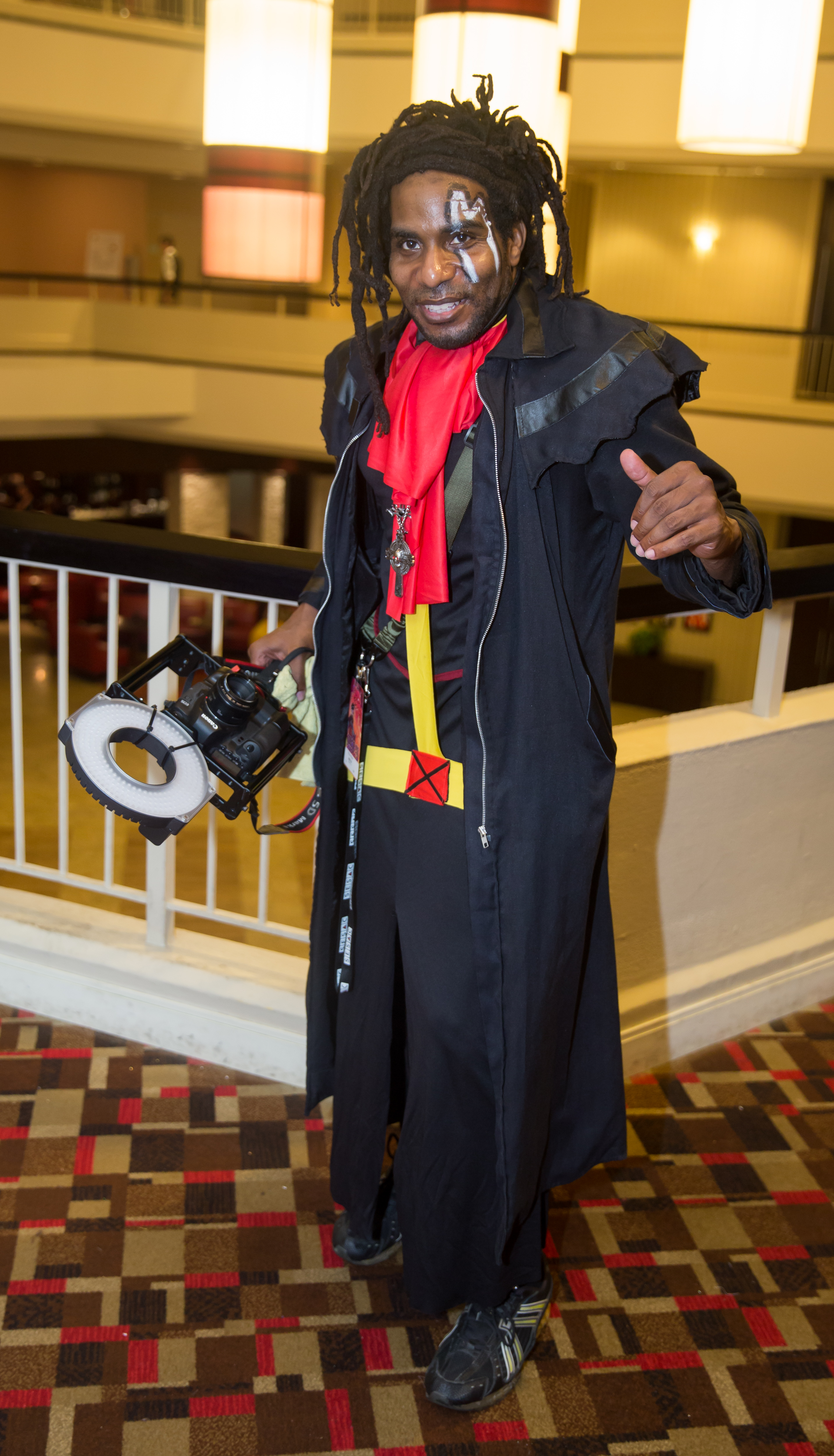 He applied his make-up to the wrong eye. He's not the only Bishop I saw that had made the swap. I think it's due to the people applying make-up in mirrors. Cosplay at Dragon*Con 2015.